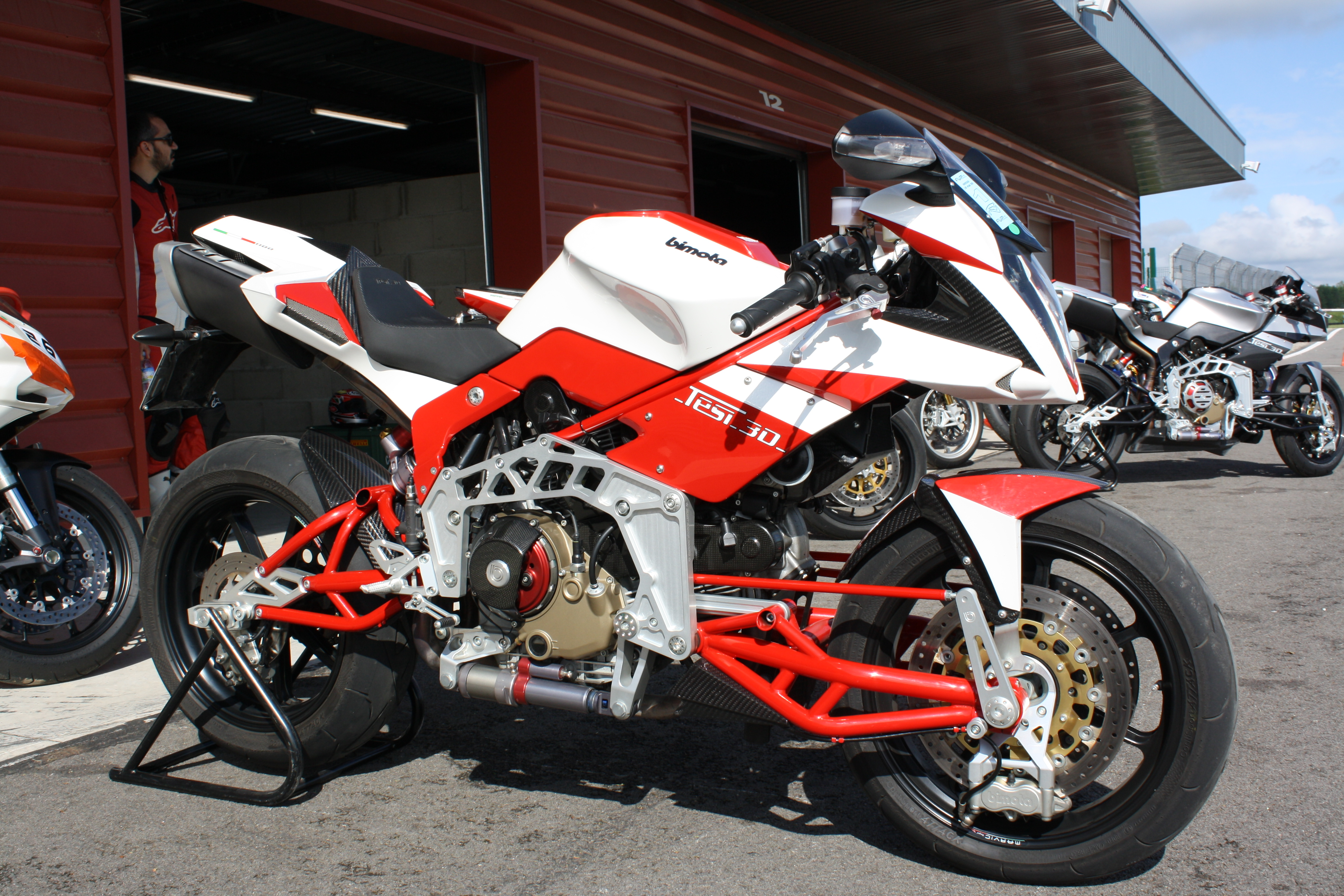 Bimota Tesi 3D with factory paint